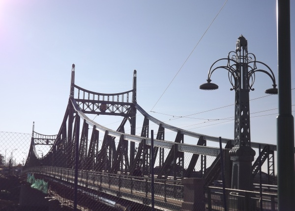 Traian Bridge, Arad (Jan 2012)